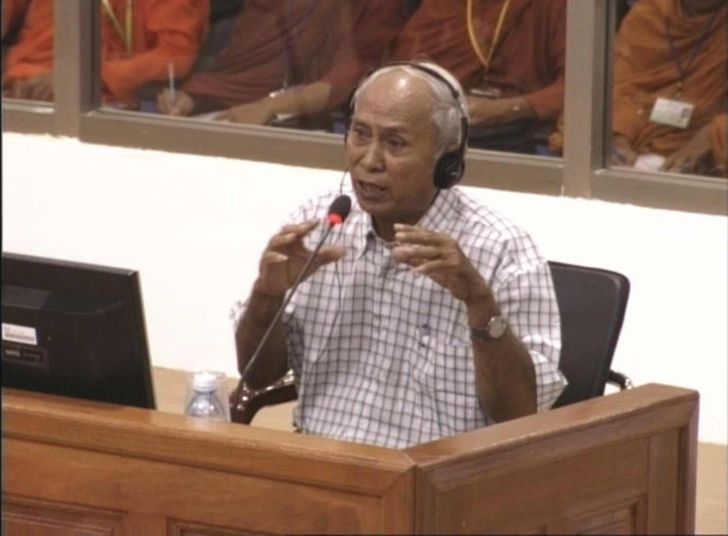 Chum Mey, one of the survivors from the secret Khmer Rouge prison S-21 gives his testimony before the Extraordinary Chambers in the Courts of Cambodia on 30 June 2009. Photo can be used freely by media provided that the photo is credited "Courtesy of Extraordinary Chambers in the Courts of Cambodia). ភាសាខ្មែរ: លោក ជុំ ម៉ី អ្នកដែលរស់រាន​មានជីវិត​ពី​មន្ទីរ ស-២១​ ផ្តល់សក្ខីកម្ម​នៅ​ចំពោះមុខ​អង្គជំនុំជម្រះ​វិសាមញ្ញ​ក្នុង​តុលាការ​កម្ពុជានៅថ្ងៃទី ៣០ ខែមិថុនា ឆ្នាំ២០០៩។ សារព័ត៌មាន​អាច​ប្រើប្រាស់​រូបថត​ទាំងនេះ​បាន​តាមចិត្ត ដោយ​គ្រាន់តែ​បញ្ជាក់​ថា "រូបថត​របស់​អង្គជំនុំជម្រះ​វិសាមញ្ញ​ក្នុង​តុលាការ​កម្ពុជា"។